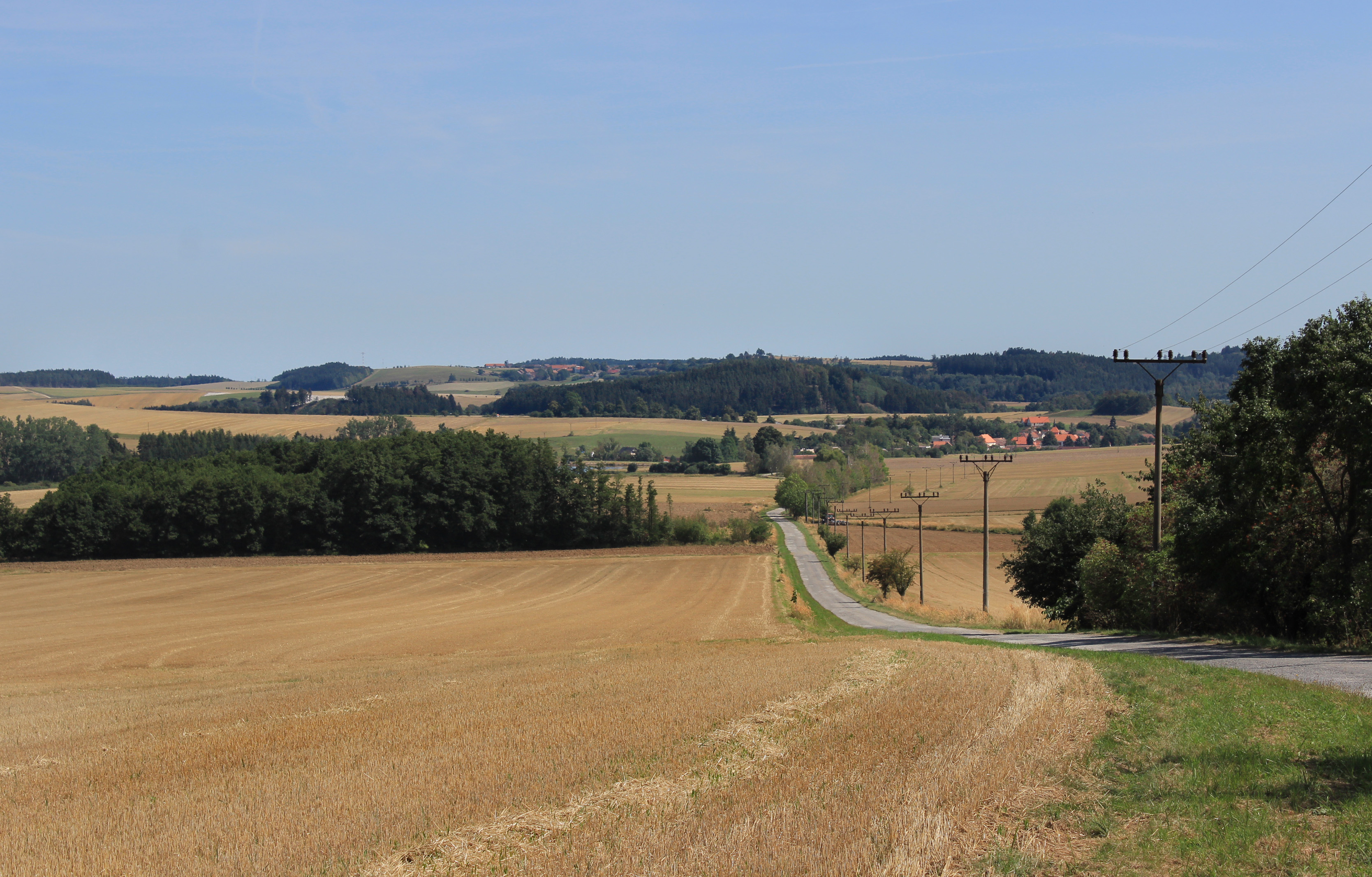 Road from Bohusoudov to Knínice, Czech Republic.